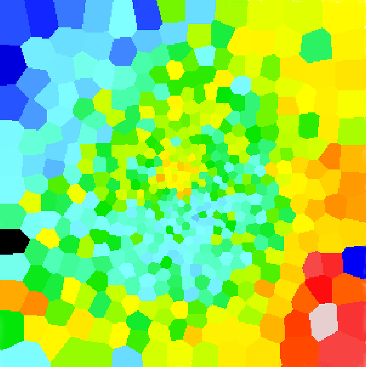 This colourful picture resembles an abstract painting, or perhaps a contemporary stained-glass window. But it is actually an unusual view of a galaxy taken with the new MUSE instrument on ESO’s Very Large Telescope. Colours in astronomical pictures are usually related to the real colour of an object. In this image, however, the colours represent the motion of the stars that form the giant elliptical galaxy Messier 87 — one of the brightest galaxies in the Virgo Cluster which lies about 50 million light-years away. Red in the image indicates that stars in that part of the object are, on average, moving away from us, blue means they are coming towards us, and yellow and green are in between. This new map of Messier 87 from MUSE shows these trends more clearly than ever before. It reveals a slow rotation of this massive object — the upper left part (in blue) is coming towards us and the lower right (in red) is moving away. It also reveals some unexpected features — for example the reversal of colours at the centre of the image, with blueish in the lower part of the centre and yellow–orange in the upper part — that suggest Messier 87 may have had a more dramatic past than previously believed, and may thus be the result of the merging of several galaxies. A paper discussing these observations was published by the team led by Eric Emsellem, ESO Head of the Officefor Science, in the letters of the Monthly Notices of the Royal Astronomical Society. Links Research paper in MNRAS Photos of the VLT Press release issued by University of Hertfordshire